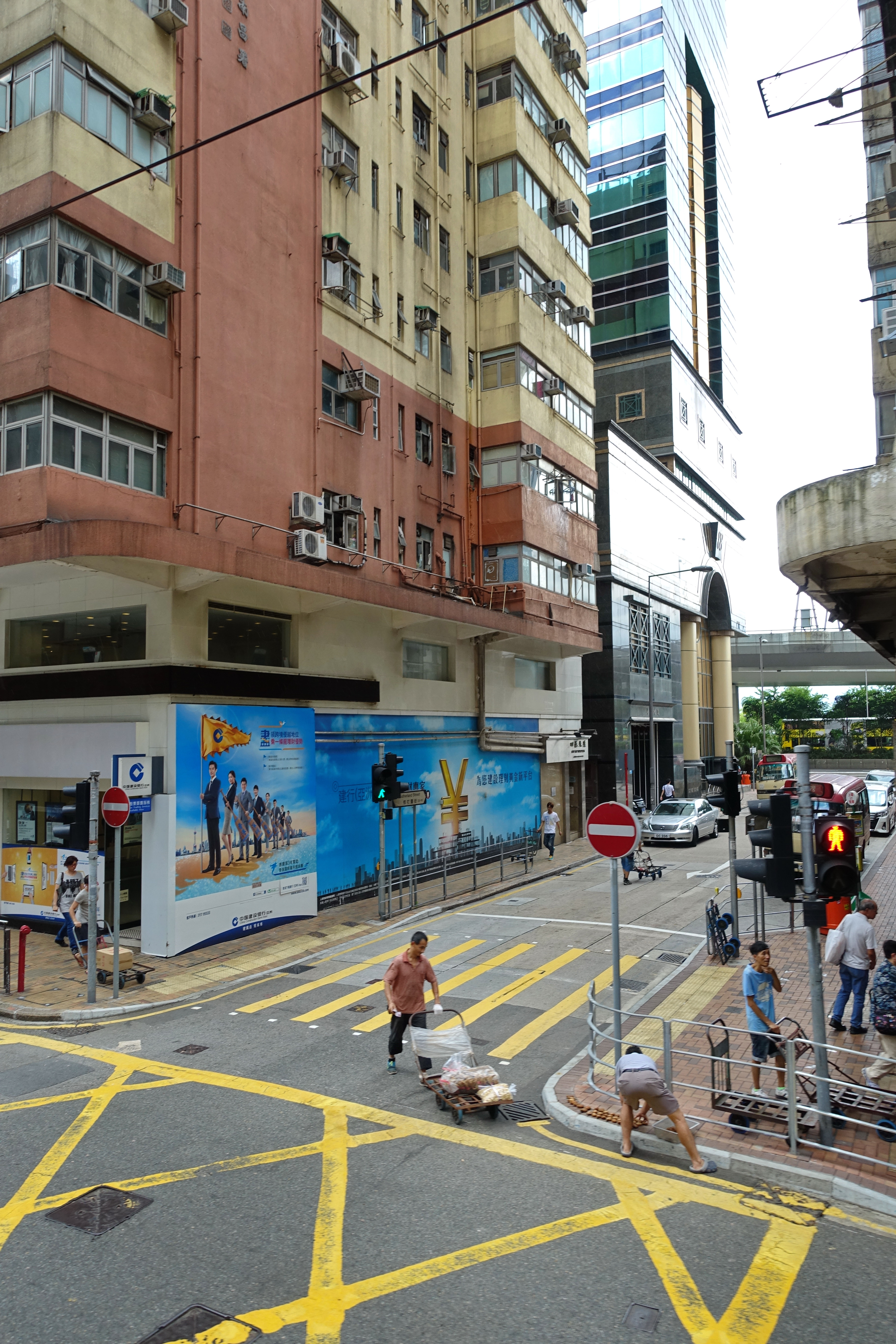 Sutherland Street and Des Voeux Road West, Sheung Wan, Hong Kong.